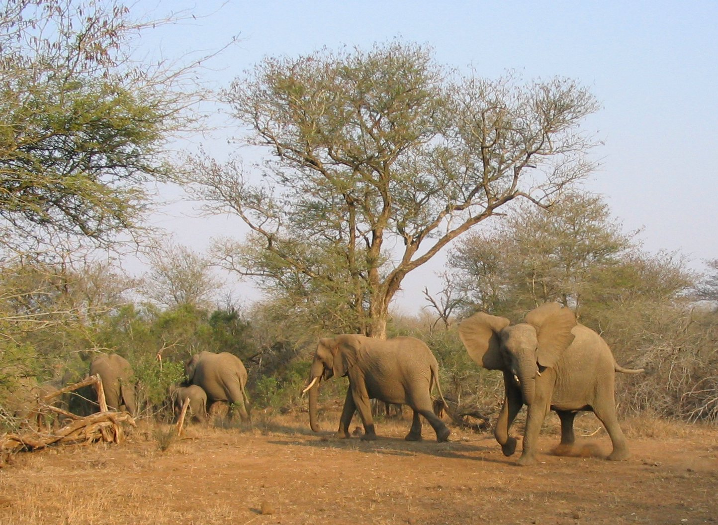 Savanna elephant "Loxodonta africana" in Kruger National Park, South Africa. Showing aggressive behaviour.